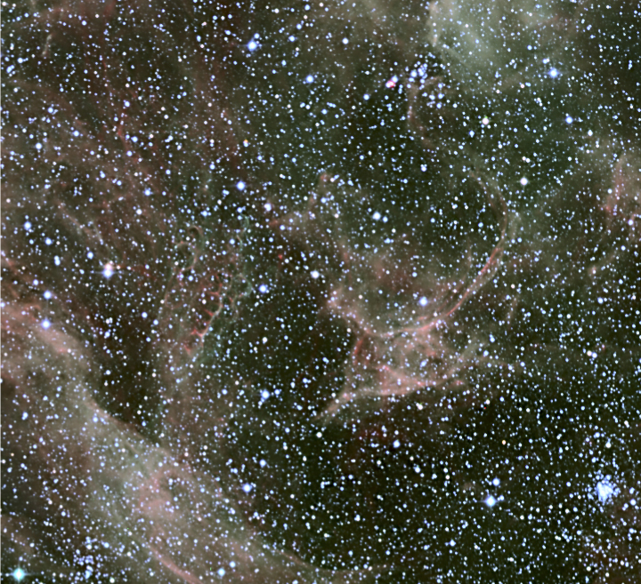 The brightest supernova which has exploded in the current epoch is SN 1987A, located at the edge of the Tarantula nebula, within the Large Magellanic Cloud. The explosion was seen on 23 February 1987 and since then the ejected material has created a set of ring structures. The SN 1987A remnant is the small, purplish point near the top of the frame, just right of center.